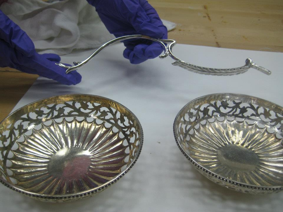 These pieces are part of a larger silver table-centre (epergne). On the left is a tarnished and unpolished silver bowl and in the right is a completed polished silver piece. There is a visible difference in cleanliness and color between the left and right side. The Piece held above the two bowls has also been polished. These pieces are part of an 18th century silver epergne (centerpiece) in the collection of the Indianapolis Museum of Art. Accession No. 78.96